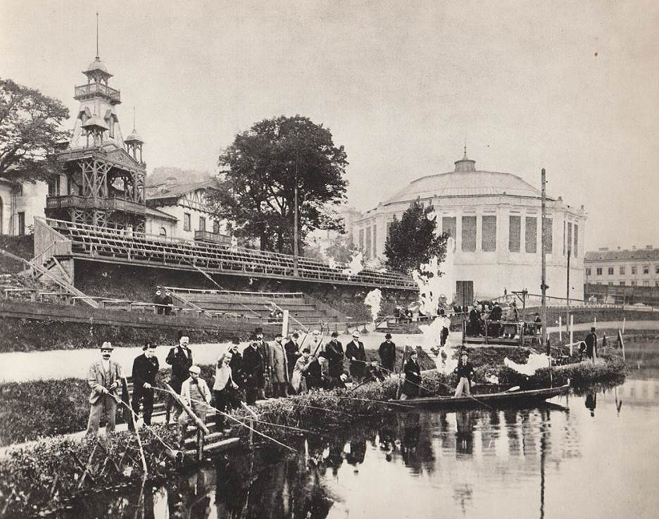 Warsaw Cycling Society at Dynasy in Warsaw